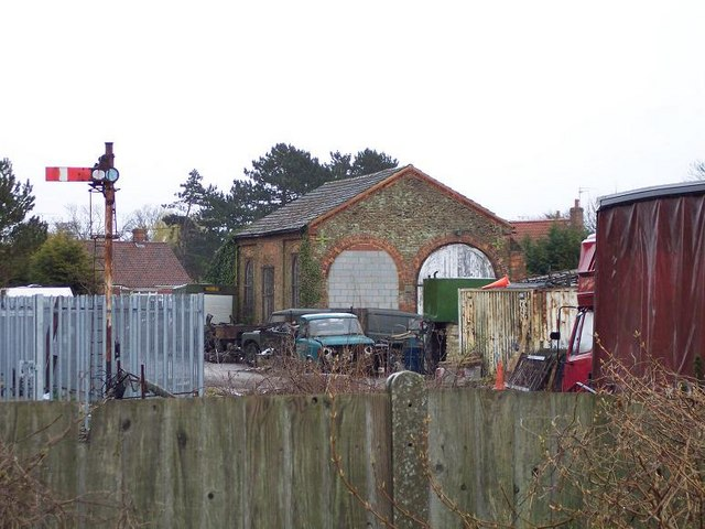 Former goods yard at Snettisham , Norfolk.